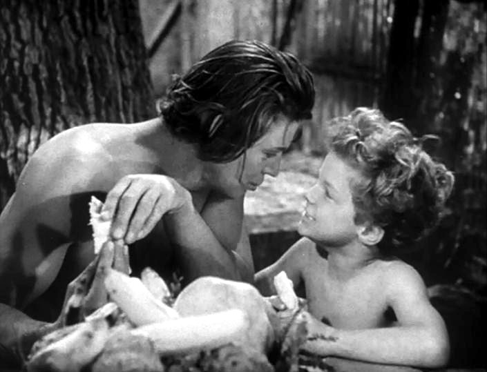 Johnny Weissmuller and Johnny Sheffield in Tarzan Finds a Son! (1939) - trailer (cropped screenshot)